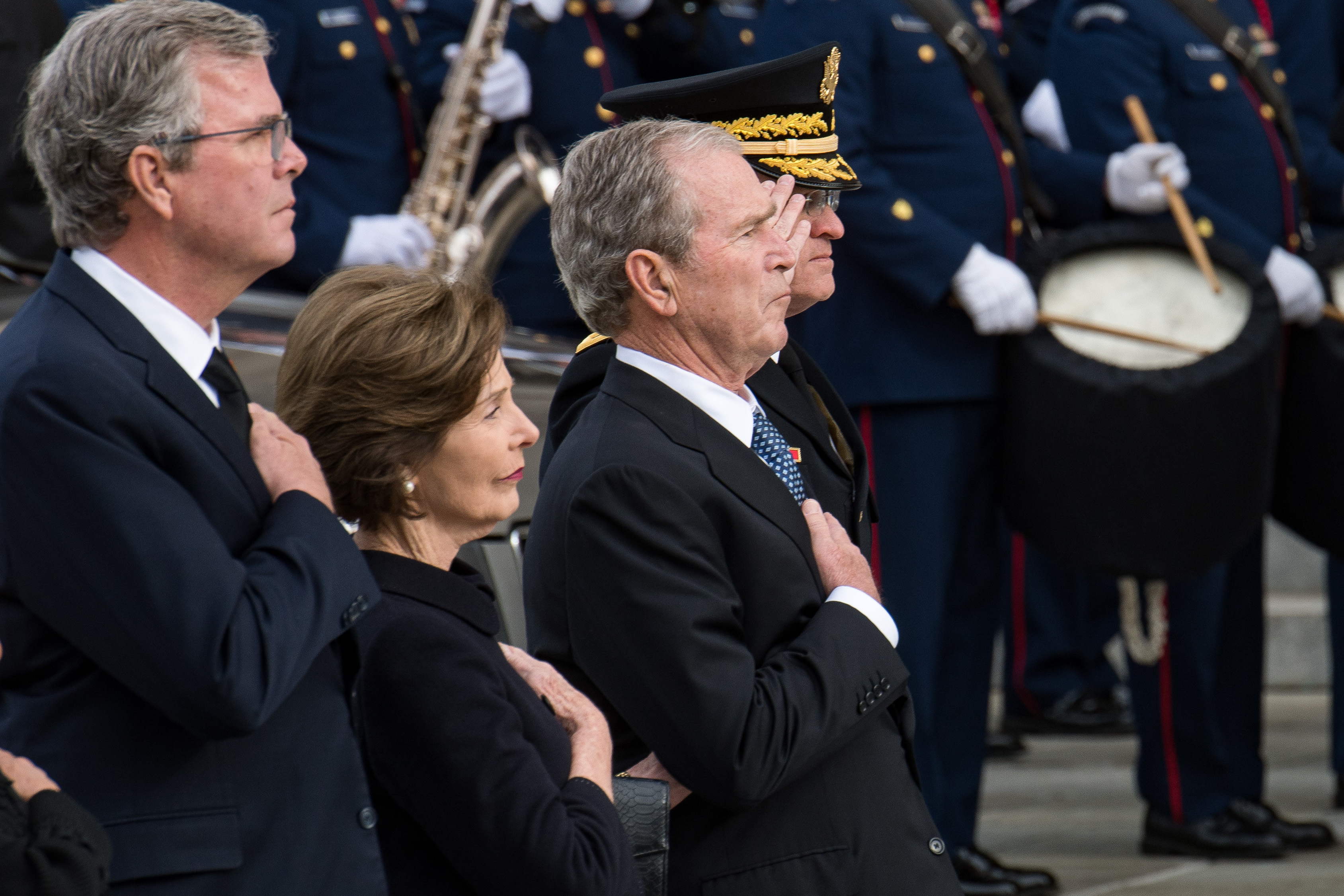 George W. Bush, the 43rd president of the United States, his wife Laura Bush and Jeb Bush stand with their hands over their hearts at the National Cathedral in Washington, D.C., December 05, 2018. Nearly 4,000 military and civilian personnel from across all branches of the U.S. Armed Forces, including Reserve and National Guard components, provided ceremonial support during Bush's State Funeral. (DoD photo by Spc. Lane Hiser)